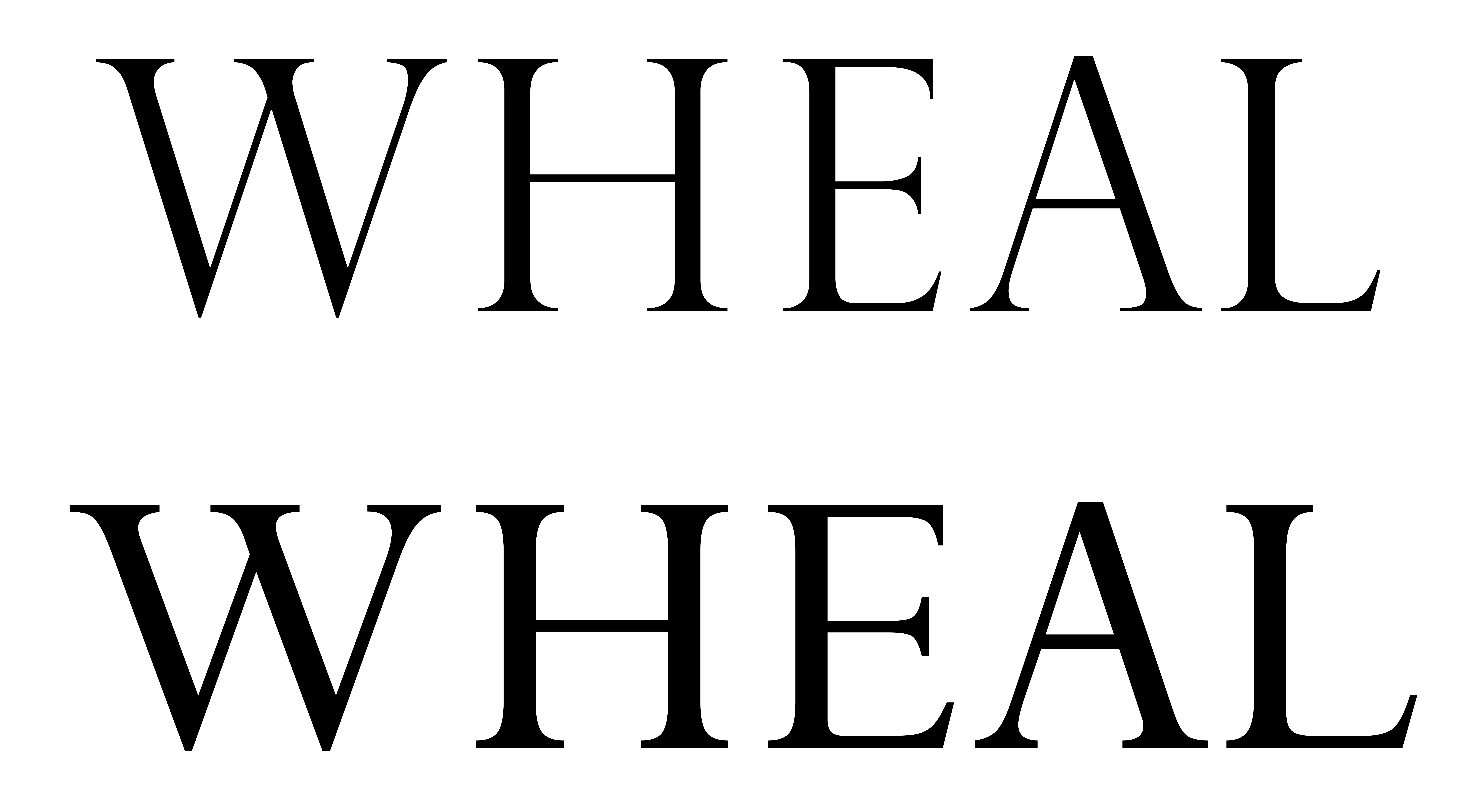 Comparison between Perpetua Text and Titling styles